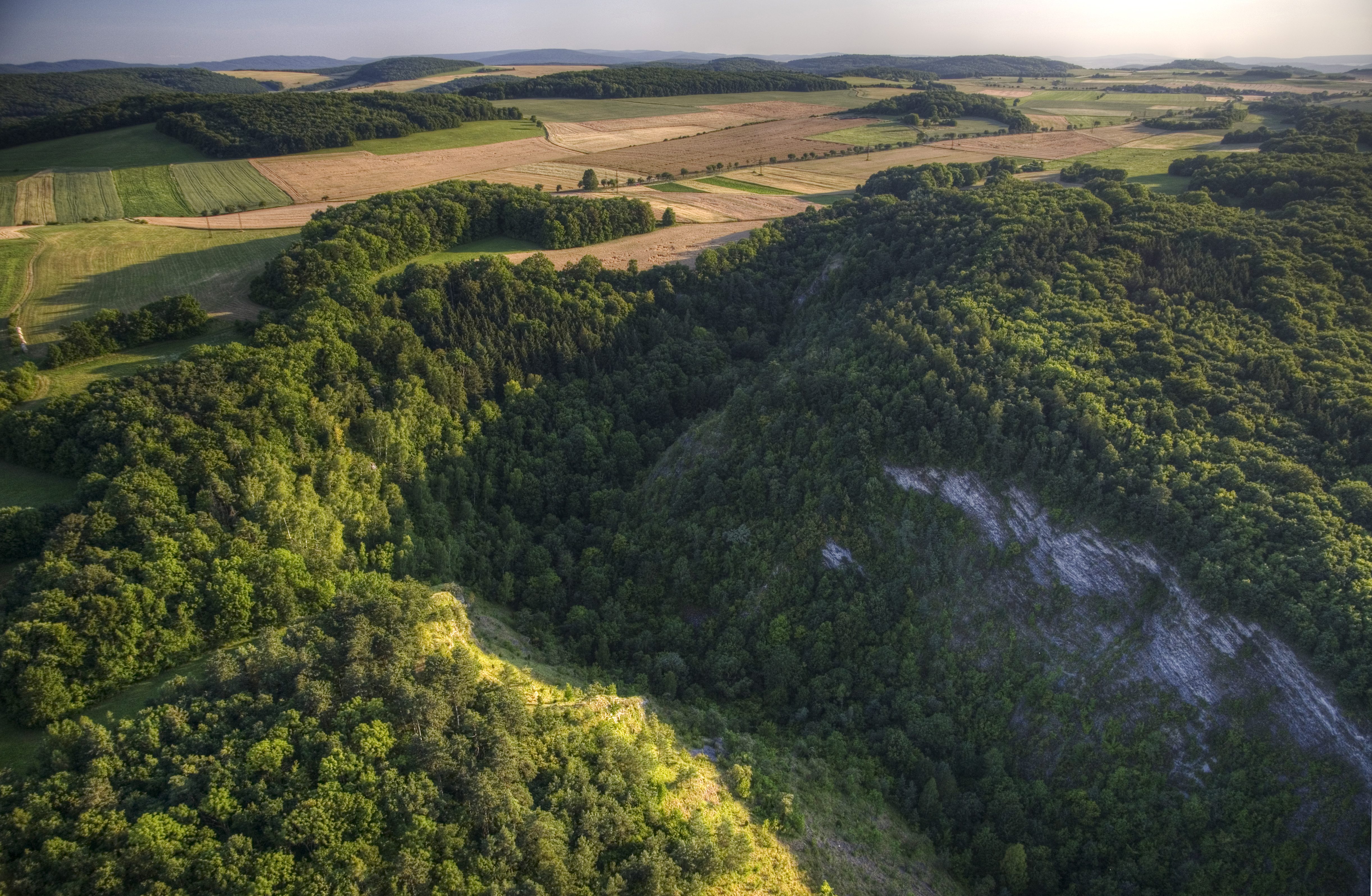 Aerial view of Cisarska gorge, part of Koda (national nature reserve) in Bohemian Karst.